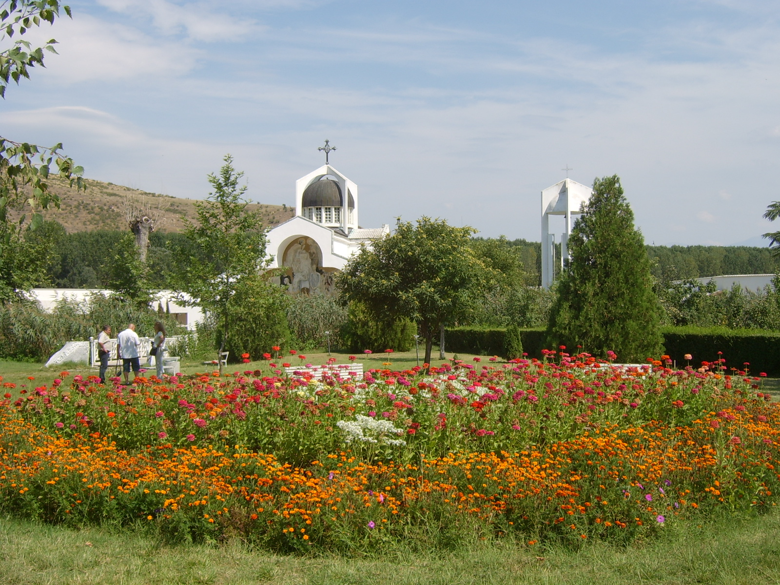 Temple "Sveta Petka" in Rupite.